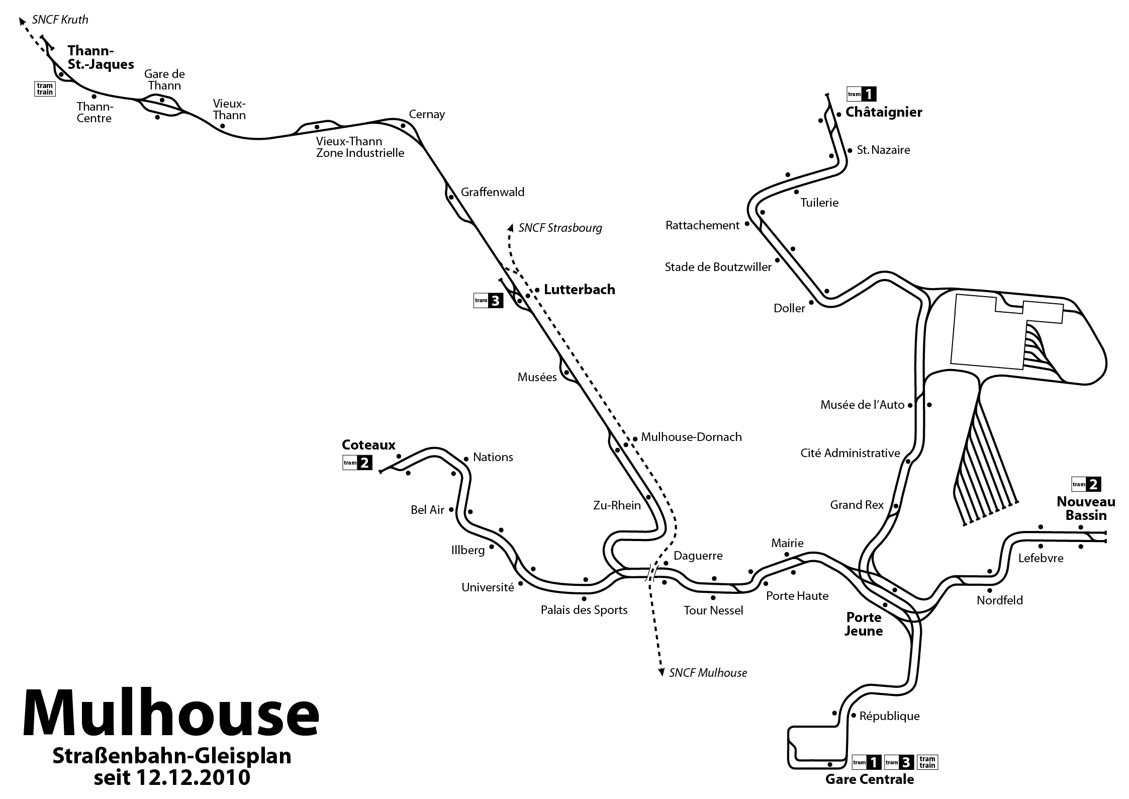 Mulhouse streetcar track map December 2010 (with tram-train tracks)